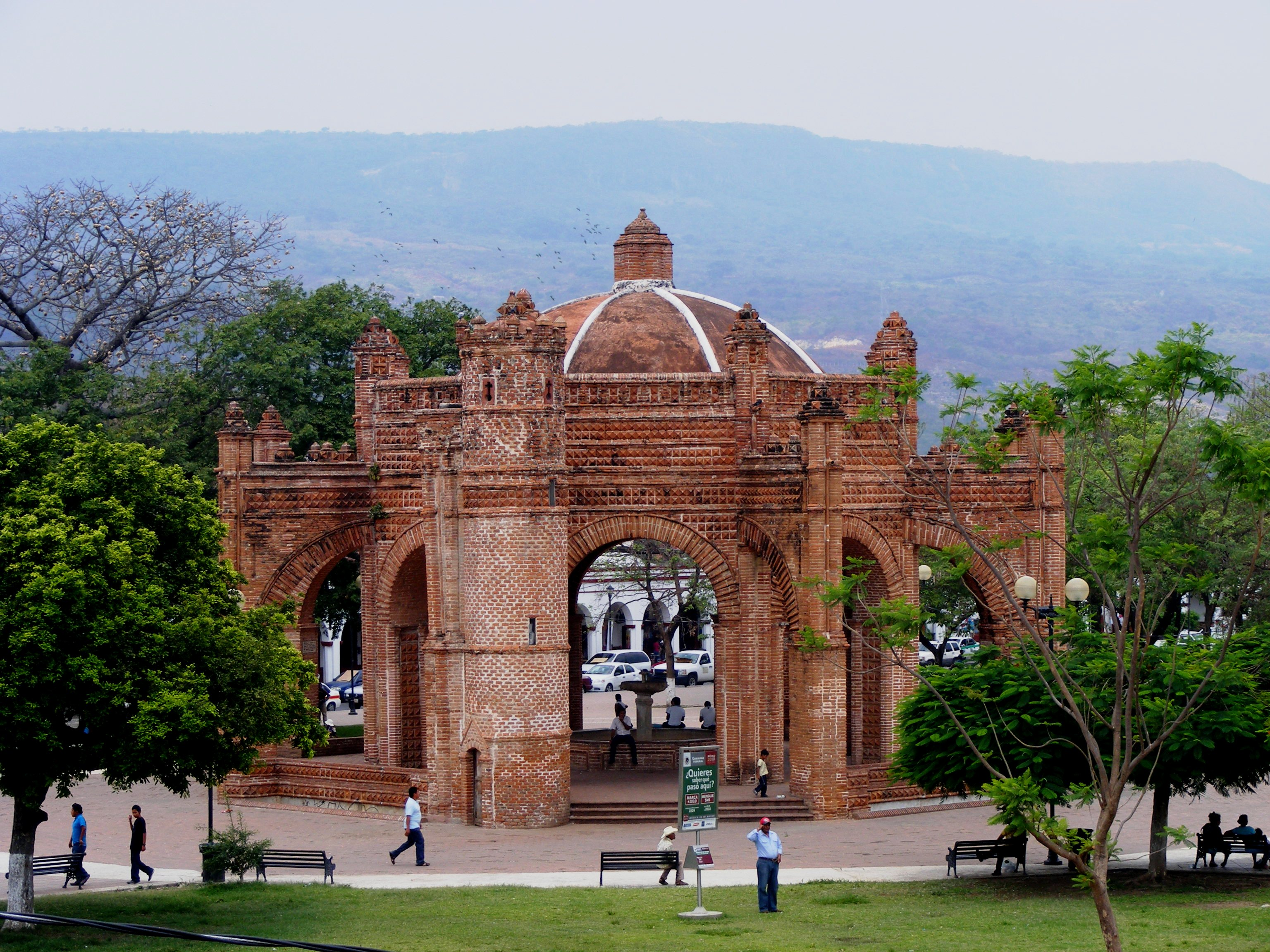 The Pila or The Crown Century XVI.